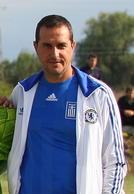 Petar Tsvetanov - former bulgarian soccer player, Coach.